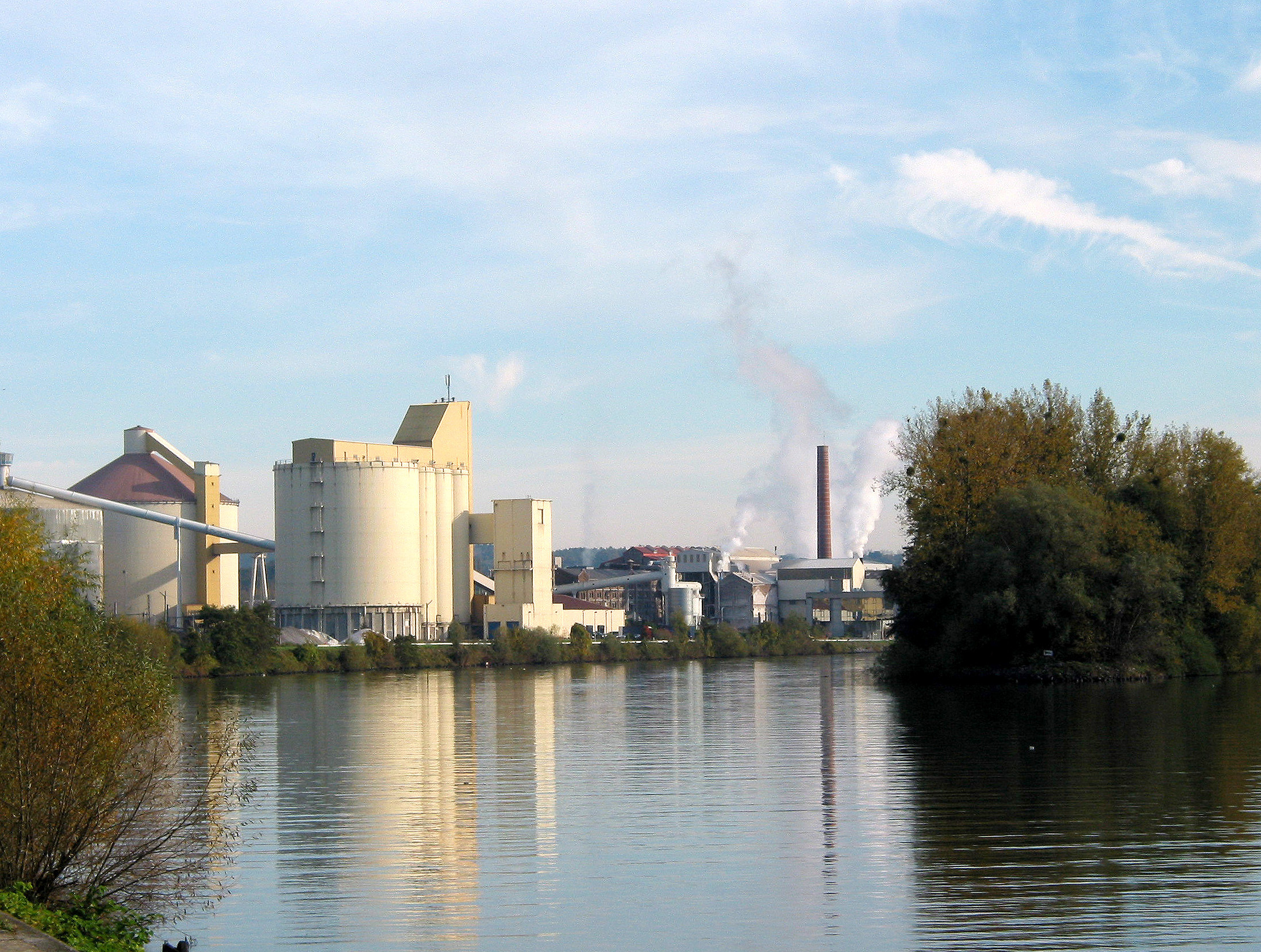 Wanze (Belgium), the "Père Pire" bridge , the Meuse river and the sugar refinery.